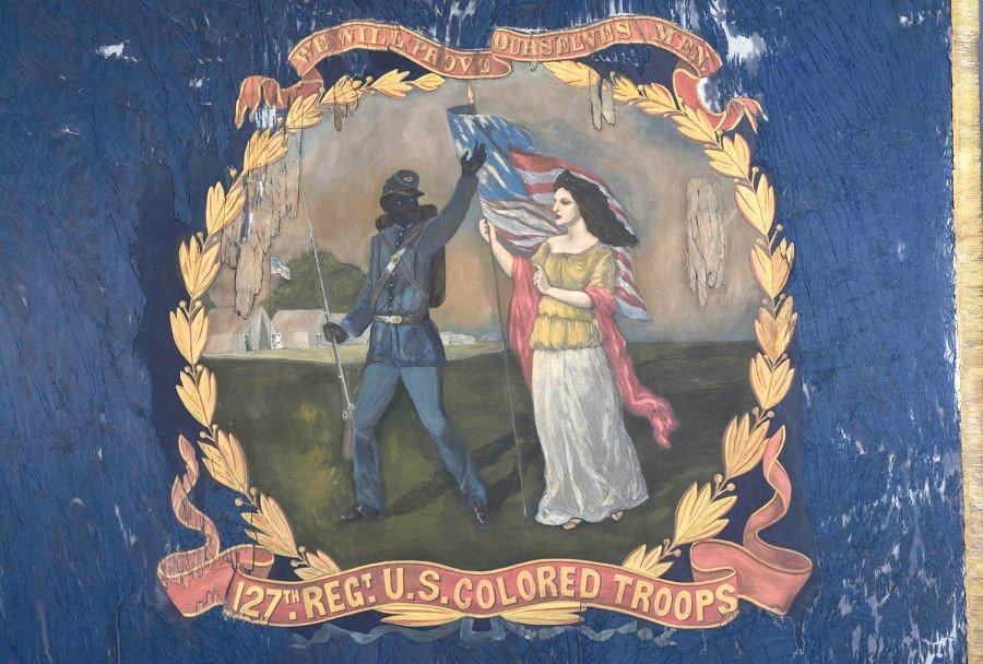 1864 battle flag carried by the ‘127th Regiment U.S. Colored Troops,’ hand-painted by African-American artist and Union soldier David Bustill Bowser